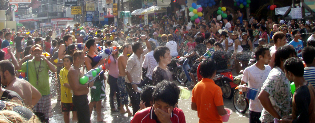 Songkran, “Water War” at Chaweng Beach (Ko Samui 2012)